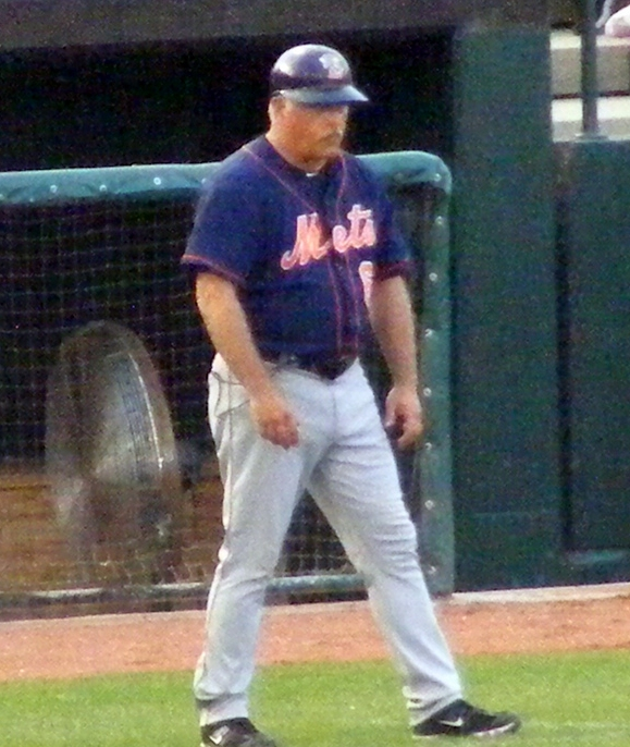 Wally Backman coaching the Binghamton Mets on June 10, 2011